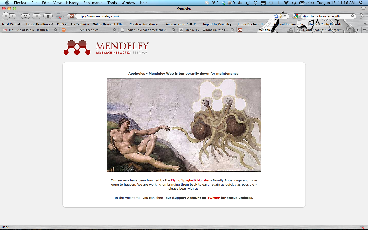 Screenshot of Mendeley Web when they display the Flying Spagetti Monster screen (Website maintenance)